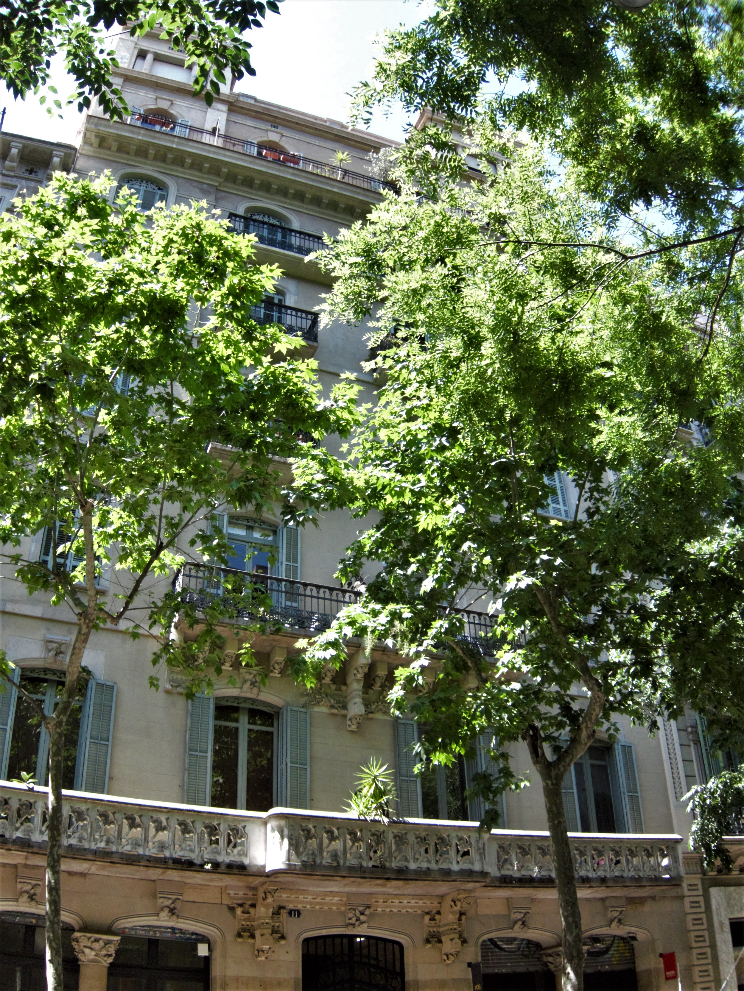 Casa Concepció Regordosa, Carrer de Bailèn 11, Barcelona, Spain